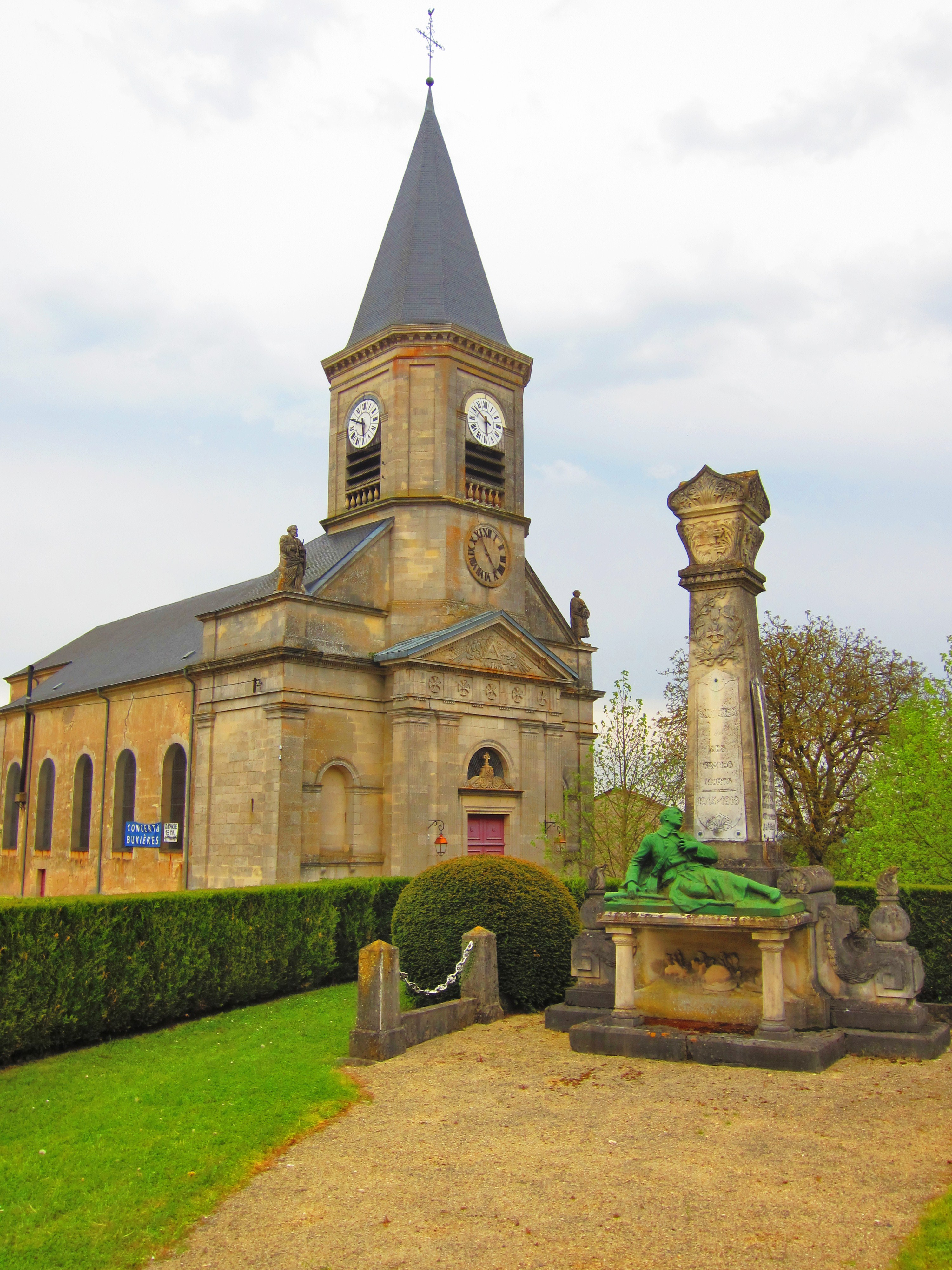 Buxieres Cotes church